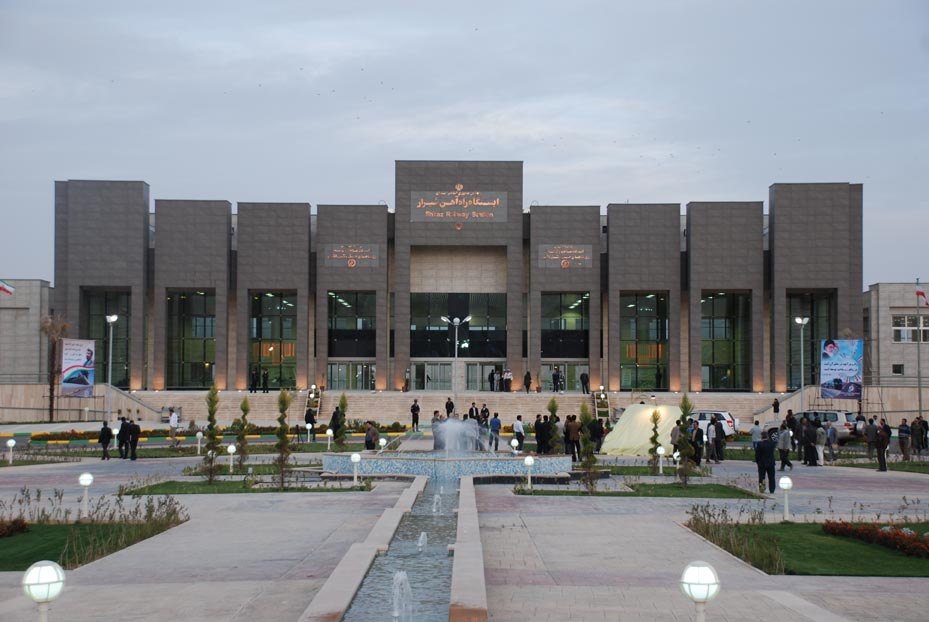 Shiraz Train Station